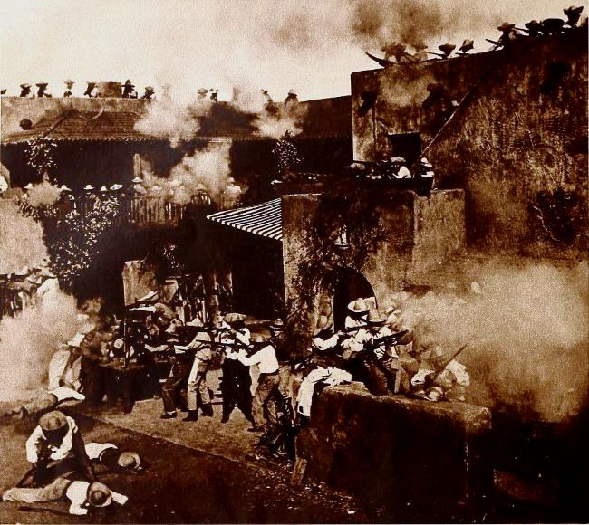 Still for the American silent film Soldiers of Fortune (1919), page 24 of the October 1919 Shadowland. This scene was filmed in California.